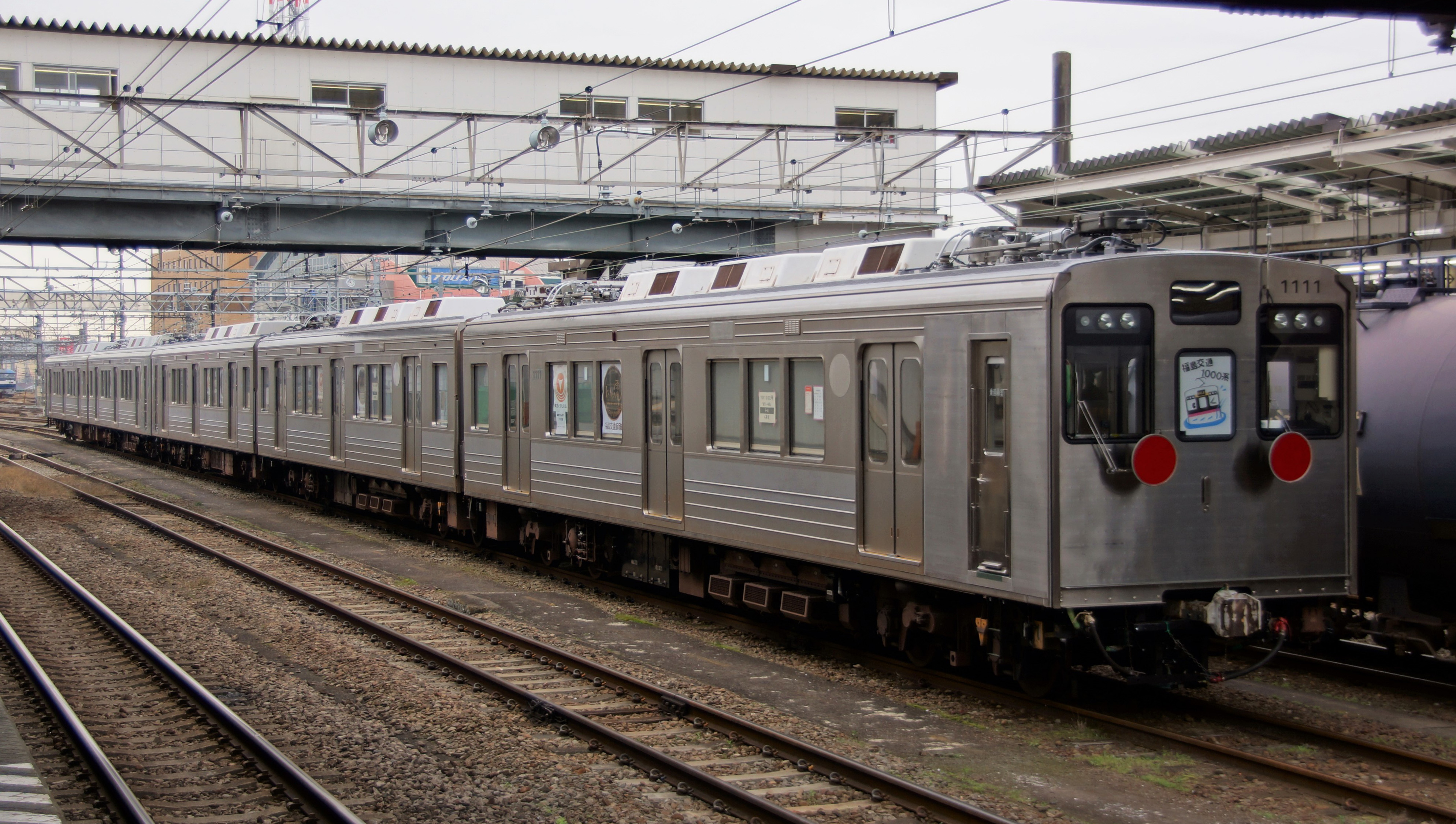 Fukushima Kotsu 1000 series three-car EMU set 1111 and two-car set 1103 at Hachioji Station following conversion from former Tokyu 1000 series EMU cars